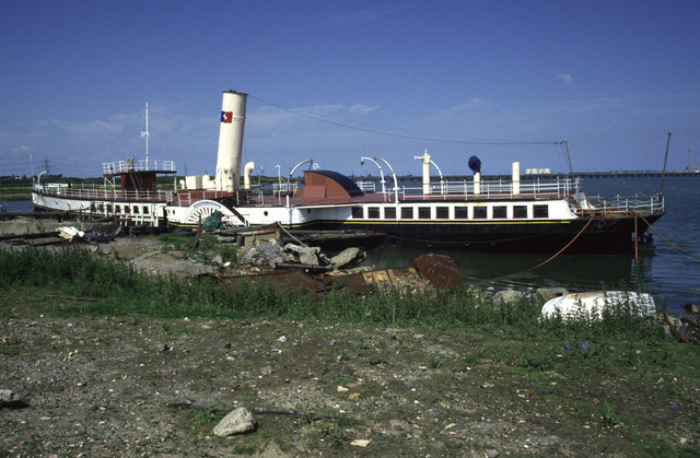 Paddle Steamer Medway Queen, Damhead Creek This was the "heroine of Dunkirk" and has for many years been clinging precariously to existence. She is no more but in a positive sense. Due to a HLF fund she has been dismantled and the usable bits will be incorporated into a replica hull to MCA standards. The original engine will provide propulsion. This has been a real mission impossible